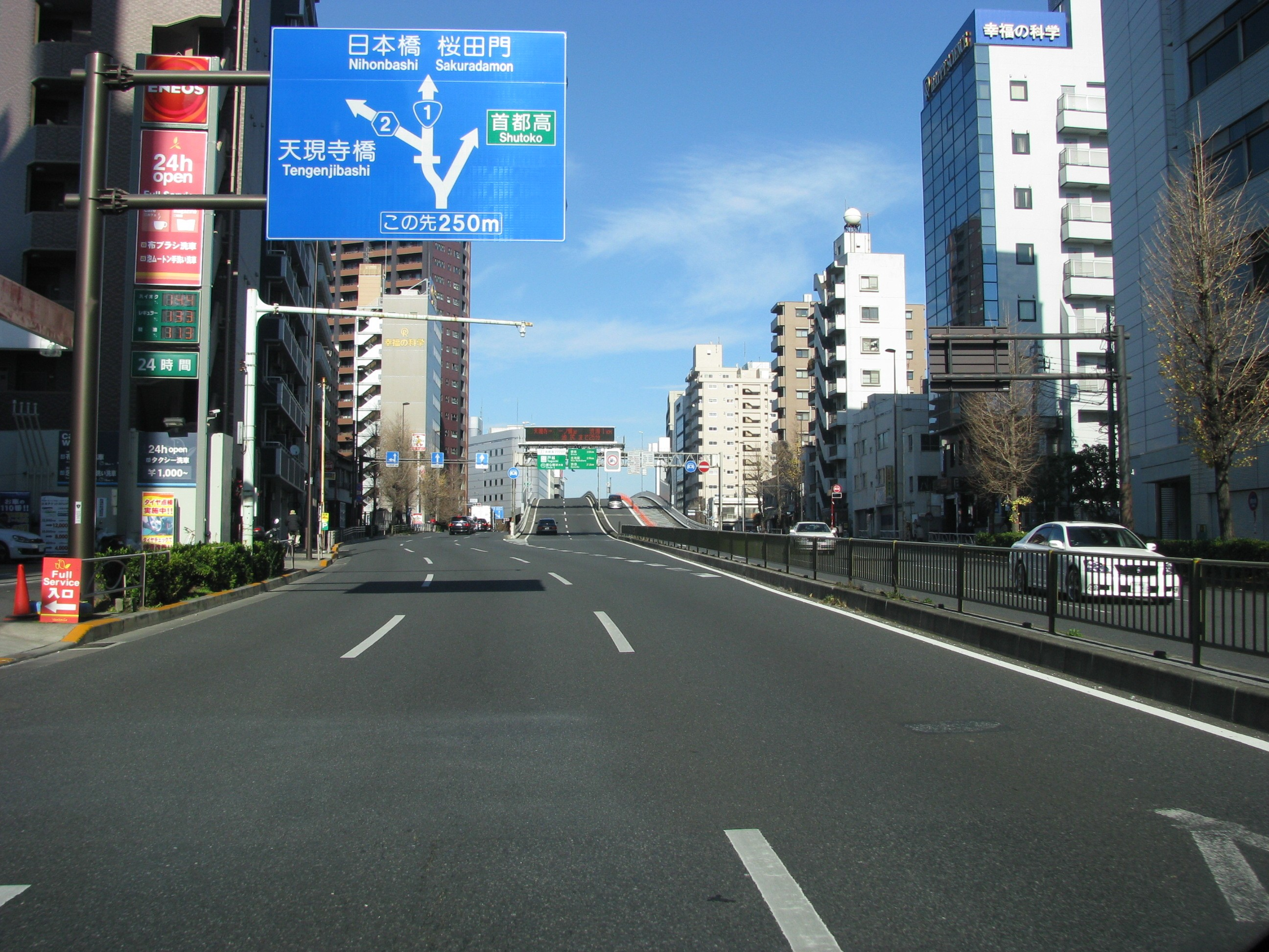 The Daini Keihin of Japan National Route 1. This place is Shinagawa, Tokyo, Japan.